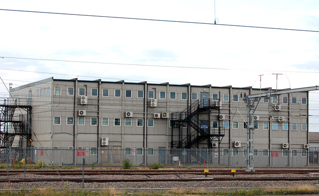 PortaKabin heaven - temporary building beside the railway near Rugby station